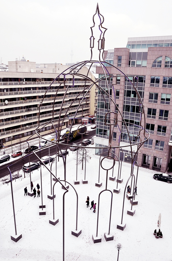 Winter 2012